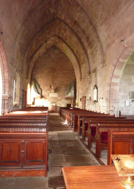 Ladykirk Church, Scottish Borders, Scotland. Interior looking west.